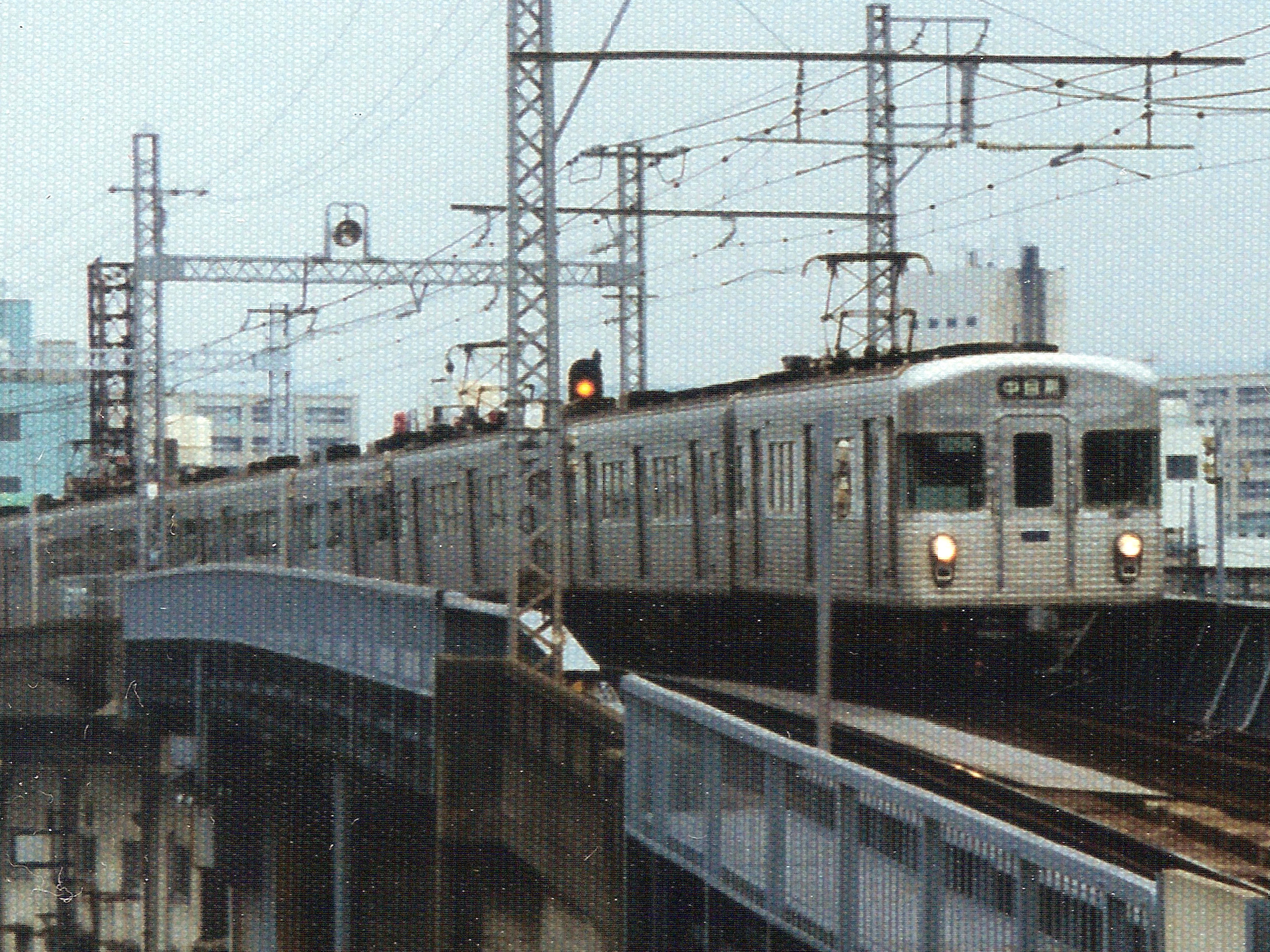 Teito Rapid Transit Authority series 3000 used for Hibiya Line